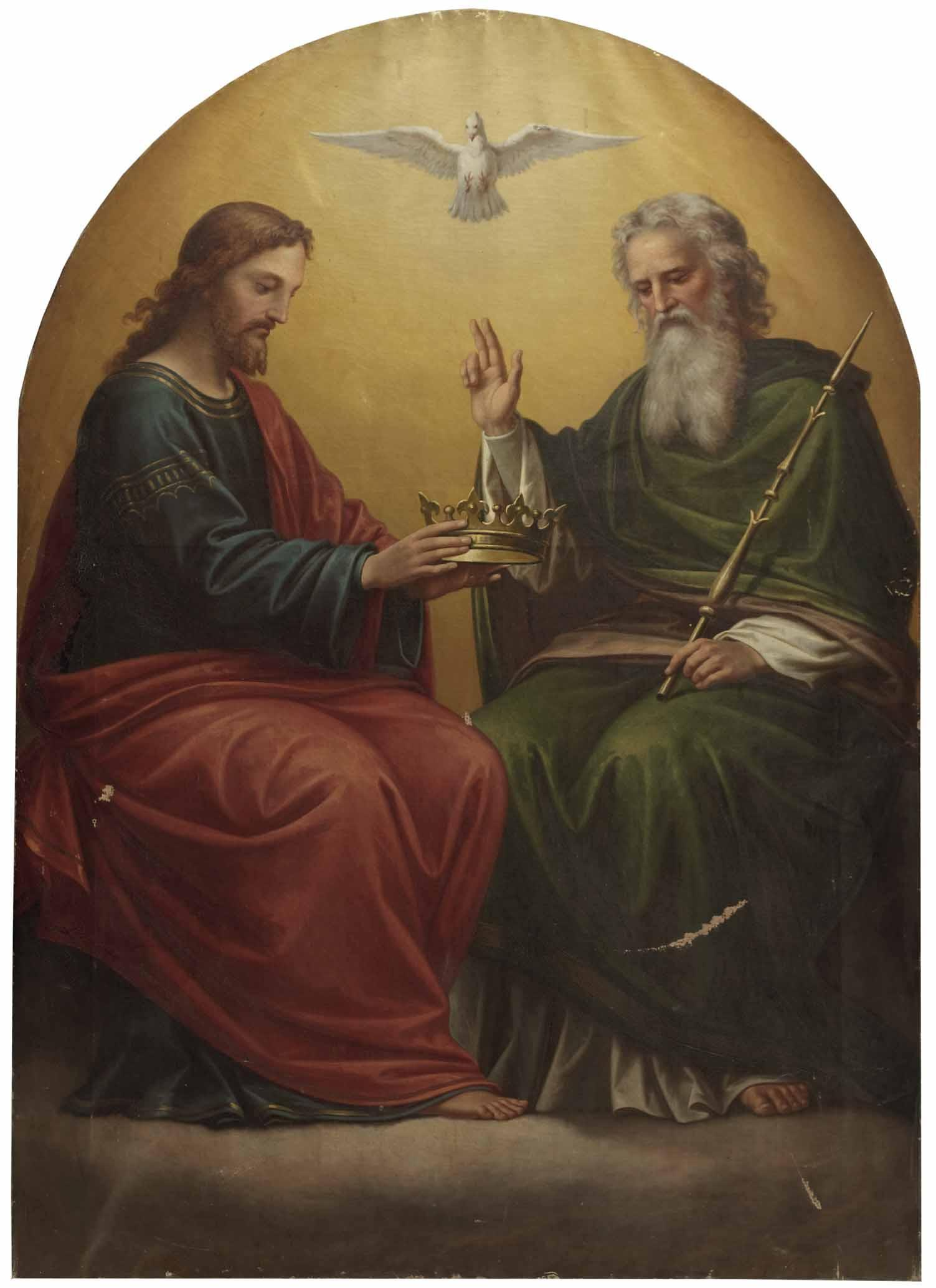 "The Holy Trinity with crown" (likely for a church altar) Oil on canvas, ca. 143 x 101 cm